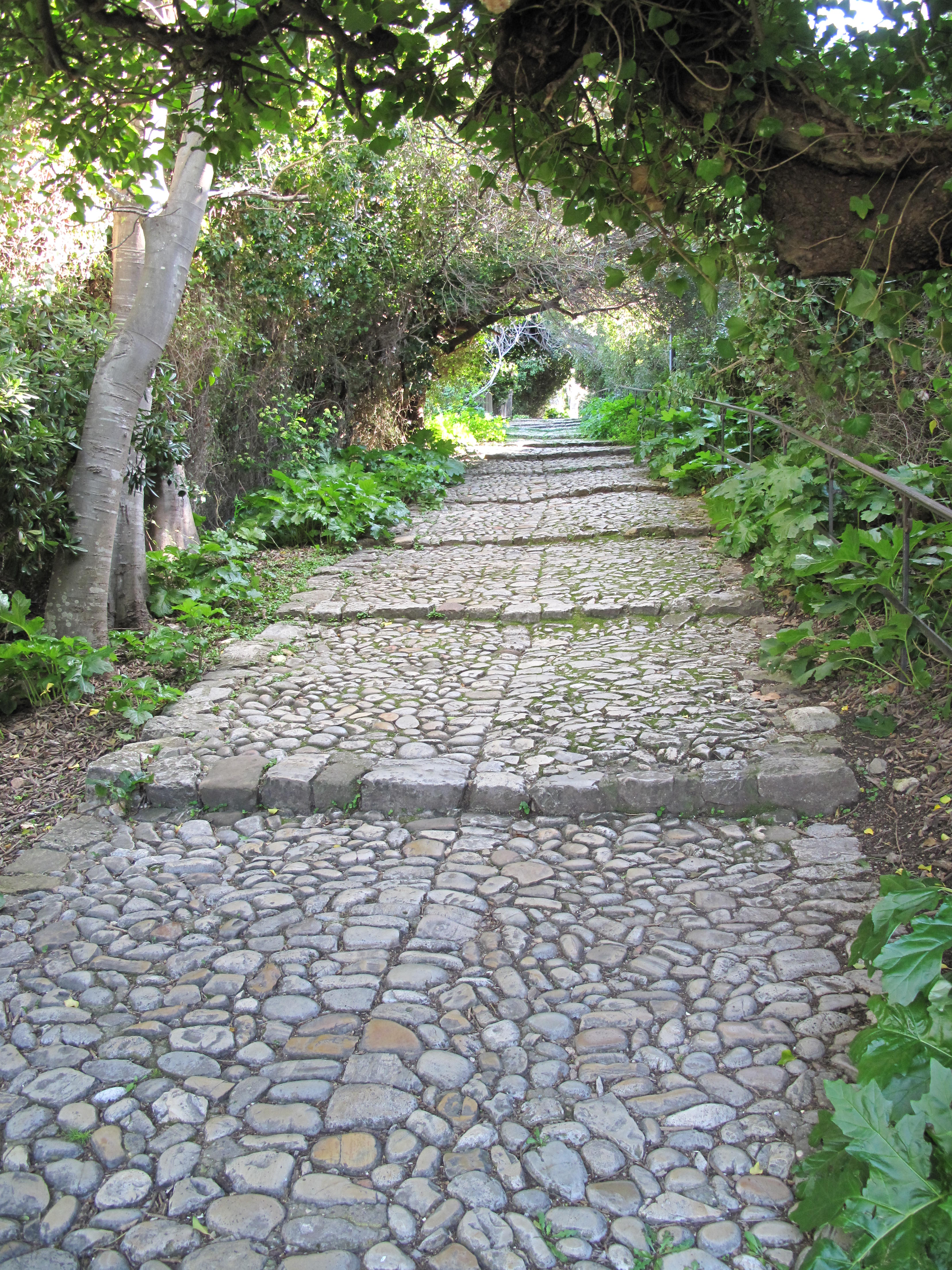 Stairs with large treads on the Sainte-Marguerite island (Alpes-Maritimes, France).